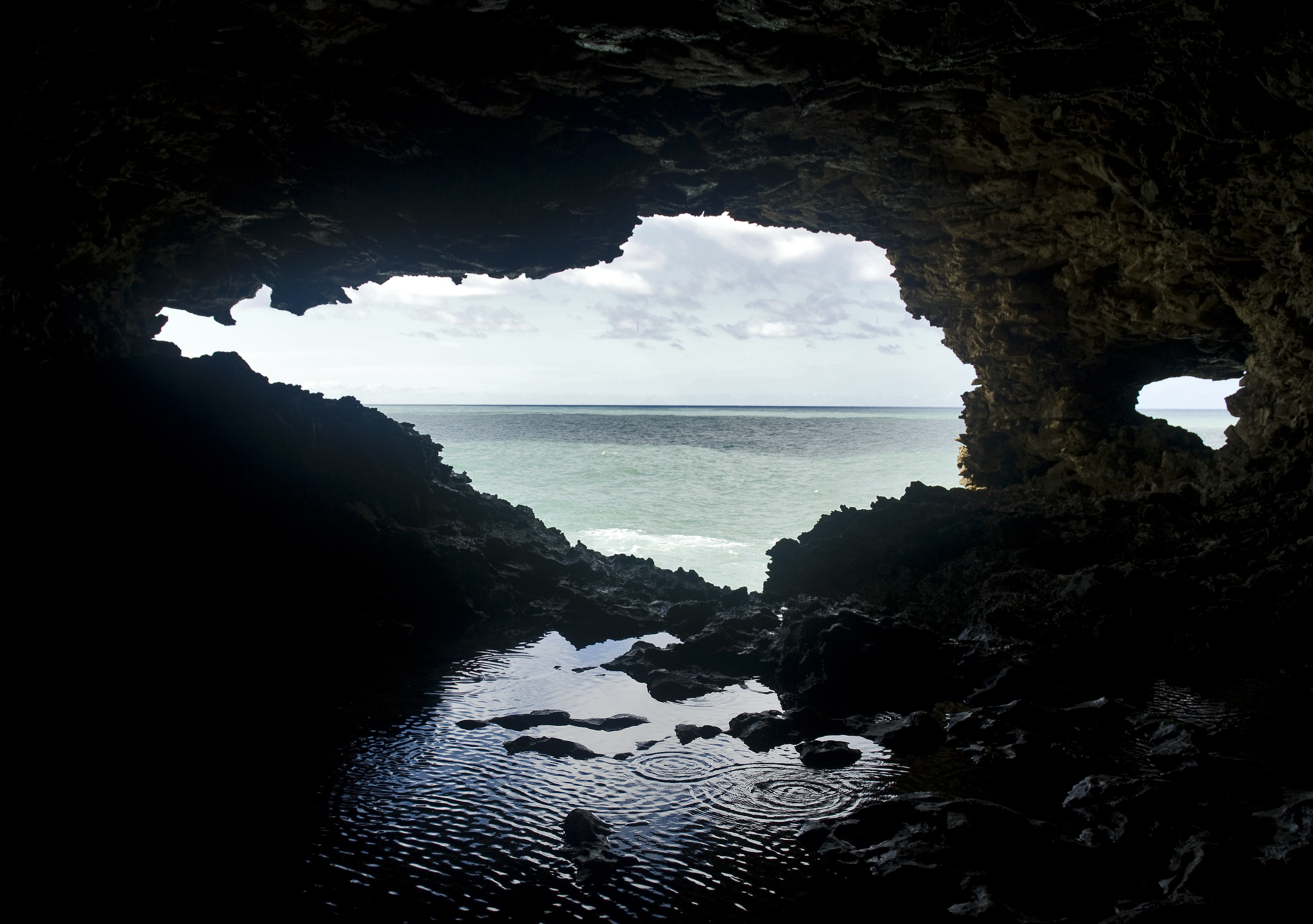 The Animal Flower Cave is located under the cliffs at the Northern tip of Barbados. The Cave is an interesting study in geology, local history and stunning sea activity. This beautiful Sea-Cave is a 'must see' for all nature loving visitors.